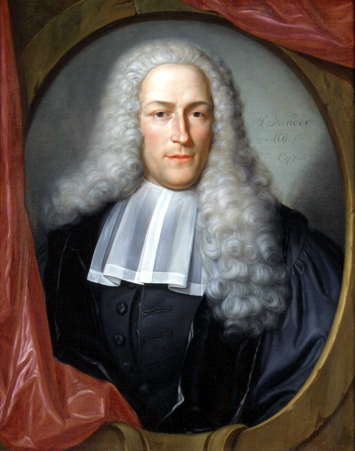 Adriaan van Royen (1704-1779) Dutch physician and botanicus